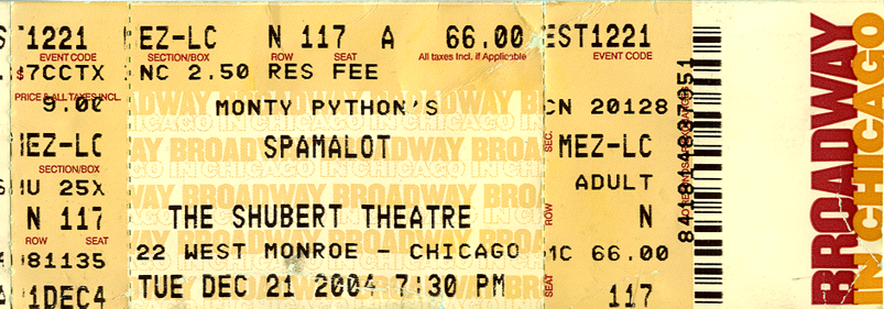 A ticket from the 1st preview of Spamalot in Chicago